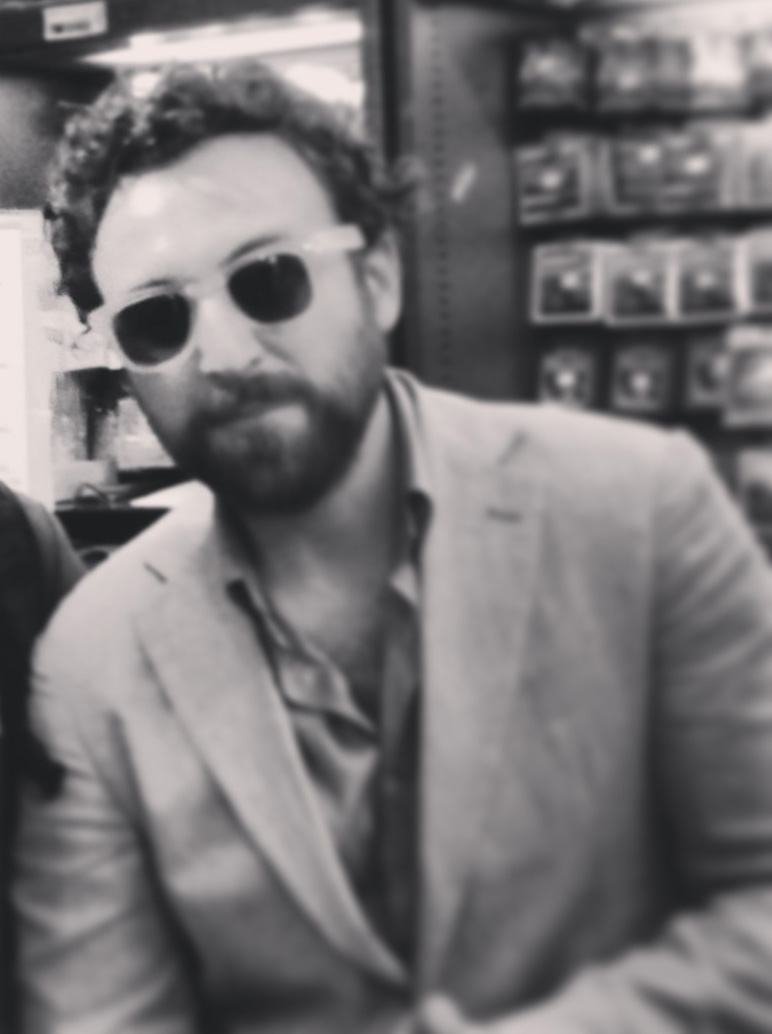 Dargen D'Amico during an instore session in Milan.